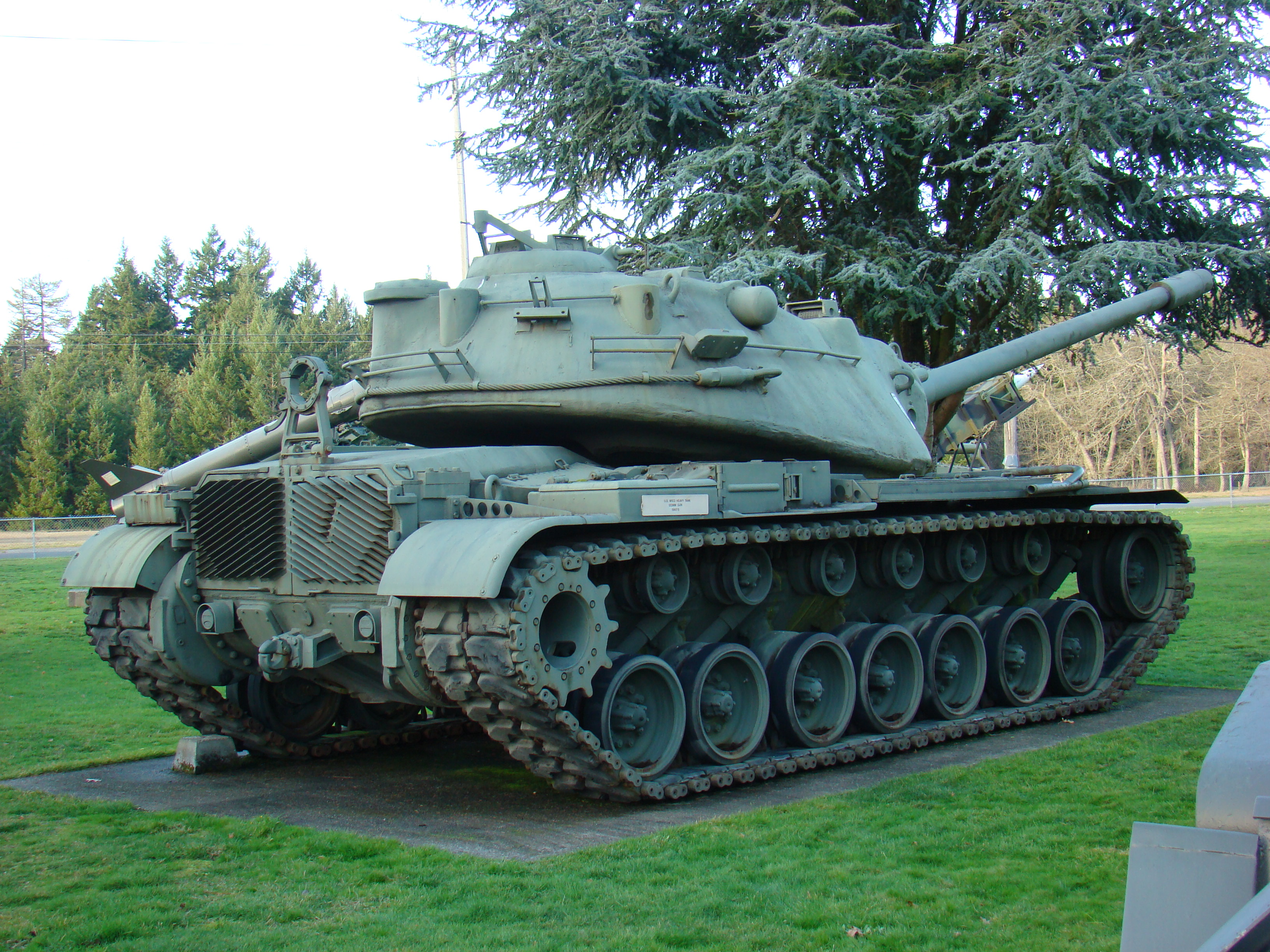 M103 Heavy tank at Ft Lewis Military Museum